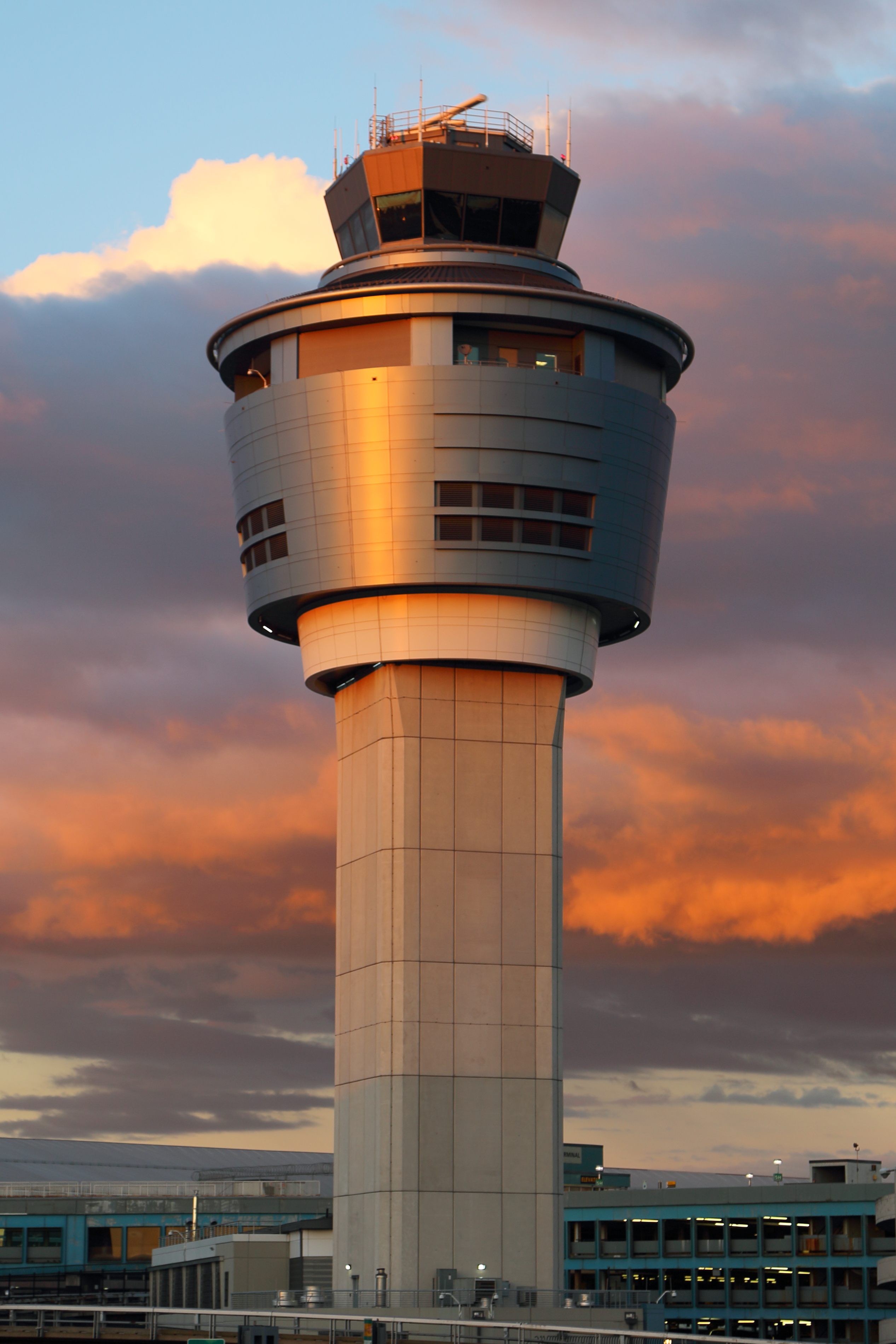 LaGuardia Airport Control Tower at Sunset